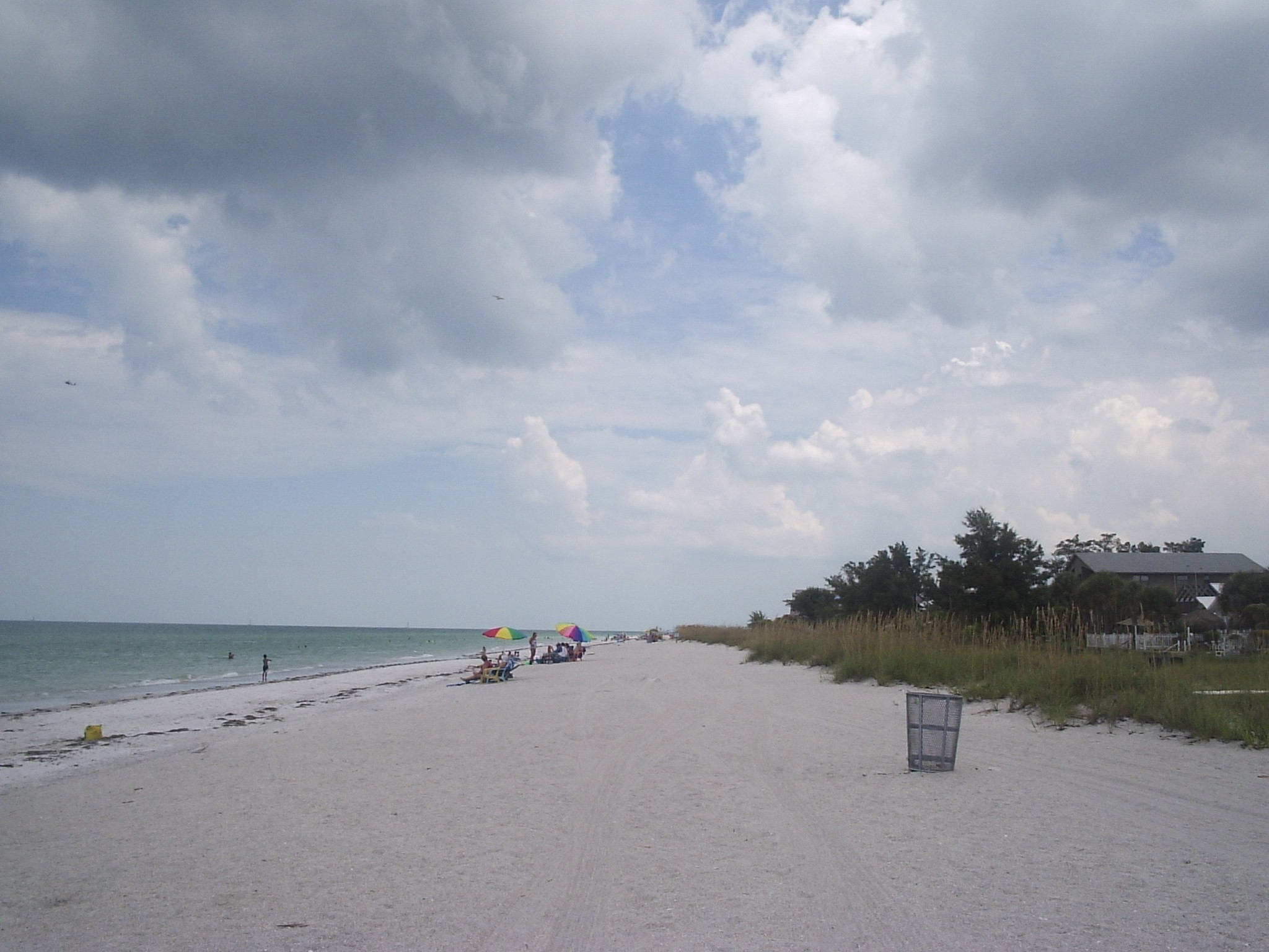 Indian Rocks Beach, Florida